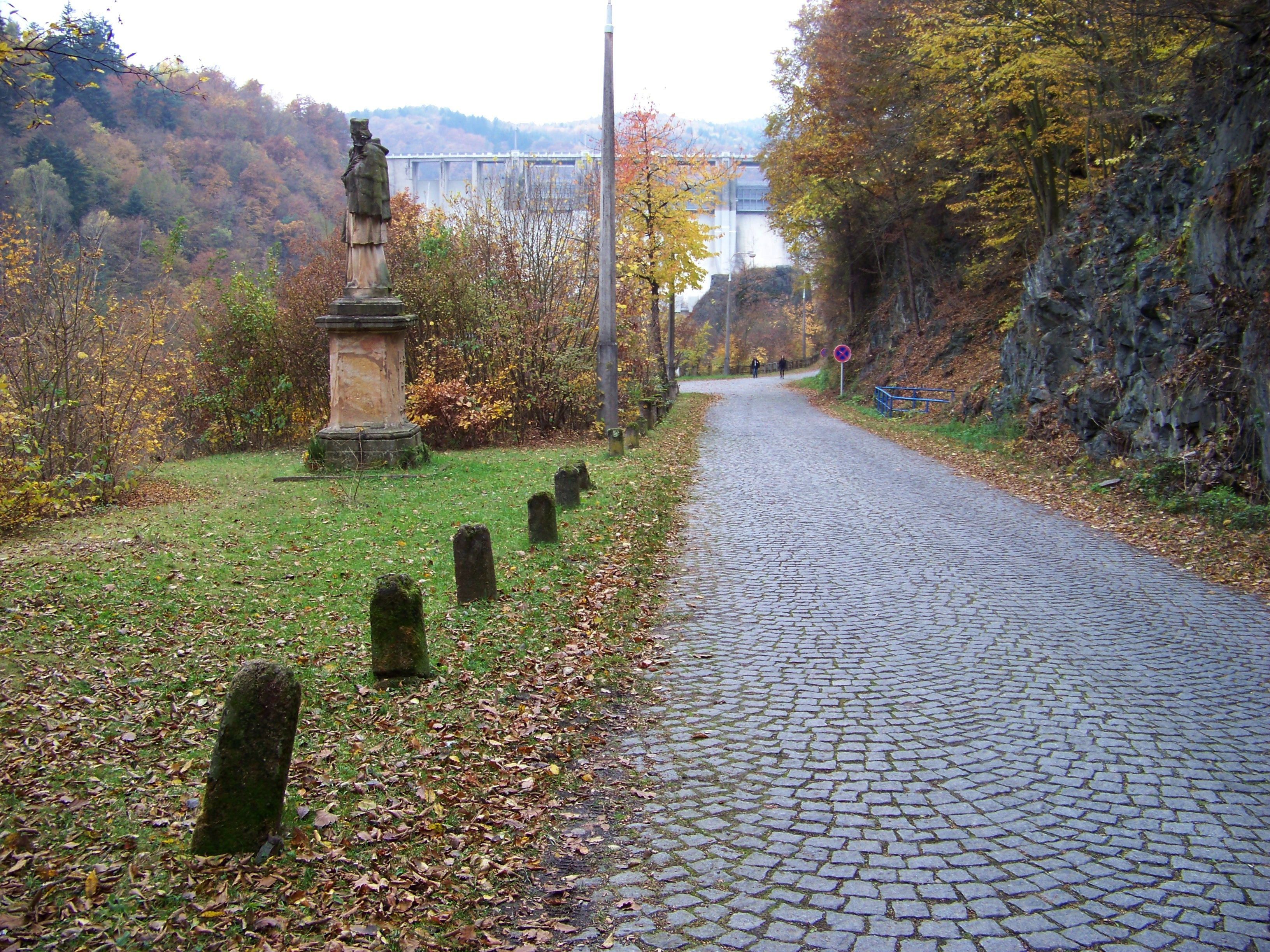 Štěchovice-Třebenice, Prague-West District, Central Bohemian Region, the Czech Republic. A replica of Saint John of Nepomuk statue above the beginn of former Saint John Torrents, a view of Slapy Dam.